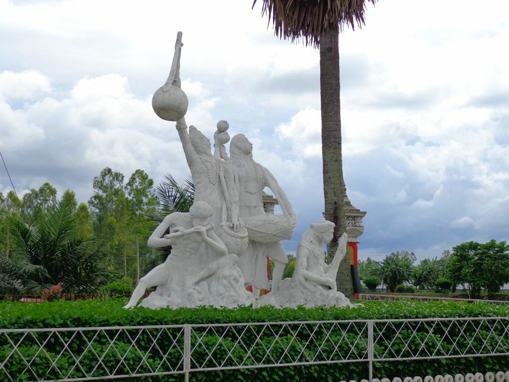 monument, place shopnopuri, dinajpur.